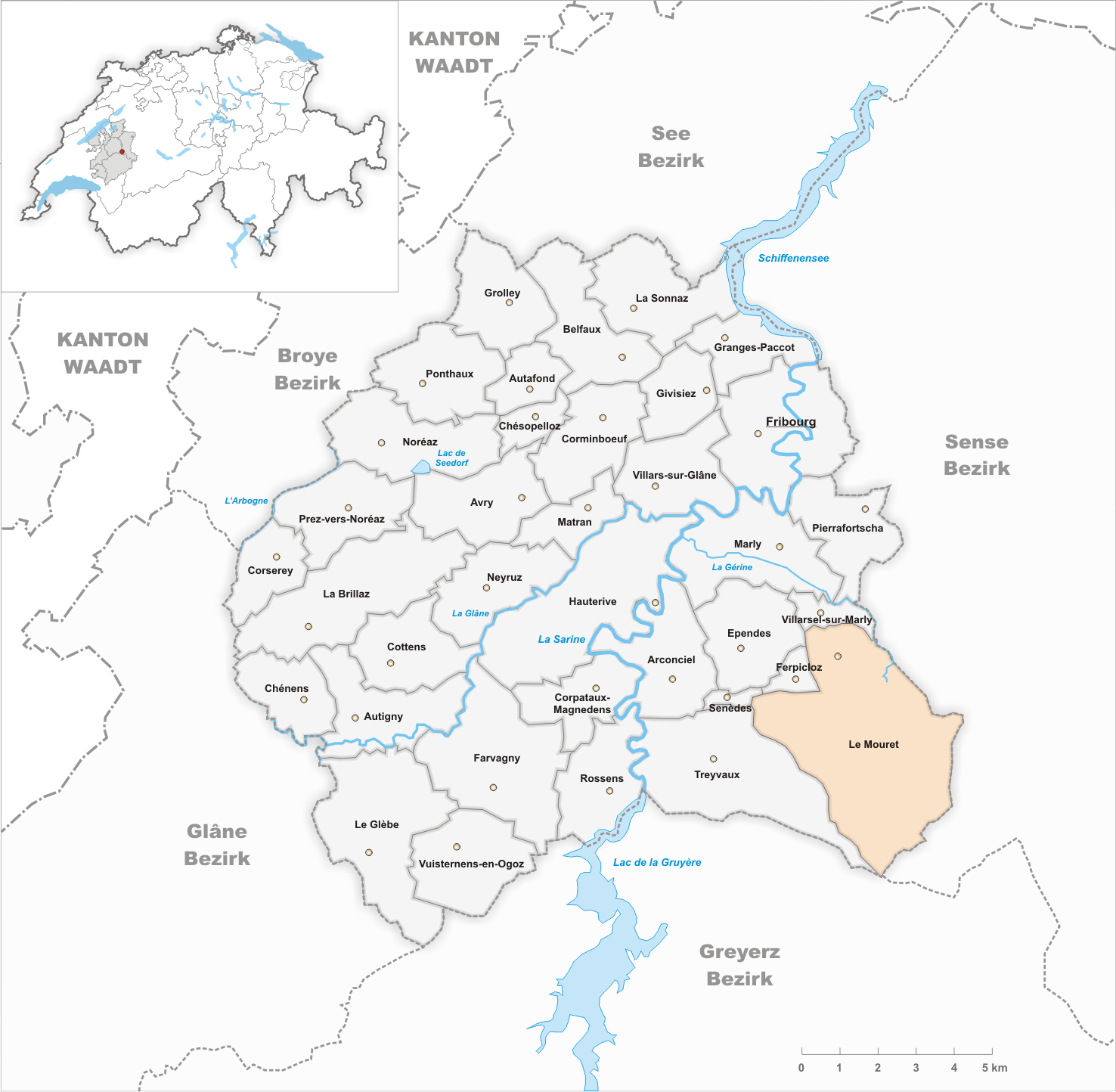 Municipality Le Mouret